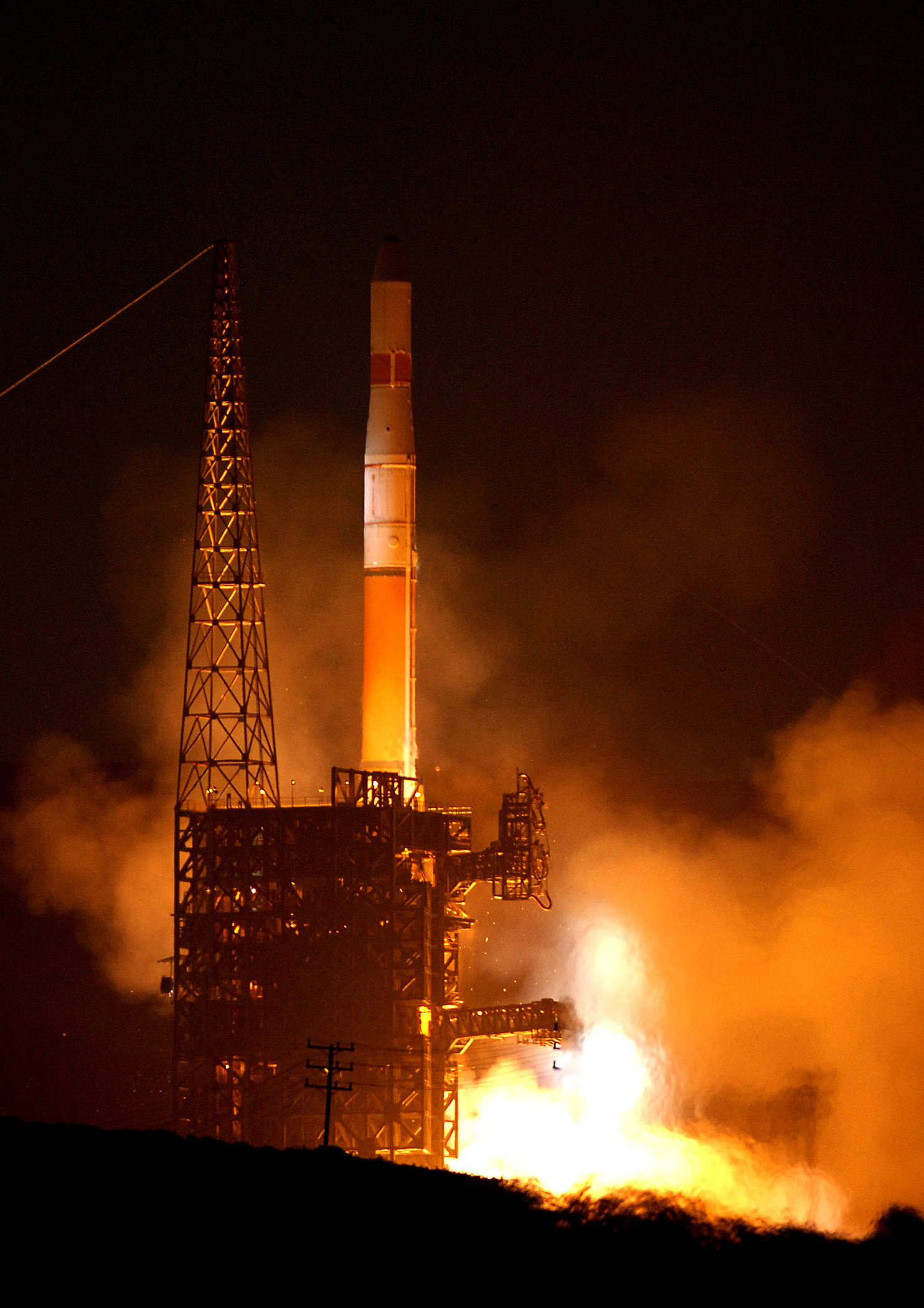 A Delta IV rocket launches at 5:53 a.m. on Nov. 4 from Vandenberg's Space Launch Complex-6. The rocket carried a Defense Meteorological Satellite Program satellite in to space. The satellite will transition into a polar earth orbit to provide weather forcasts for servicemembers on battlefields around the world.